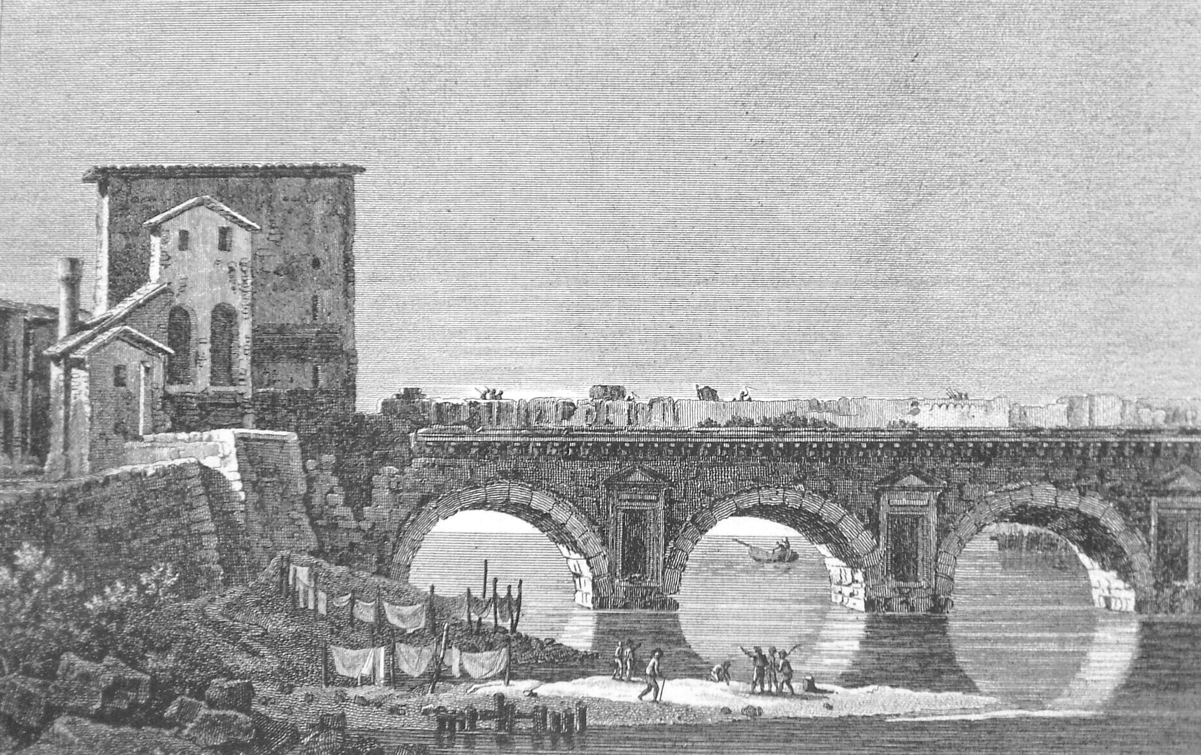 Engraving by Pierre Gabriel Berthault, 1795